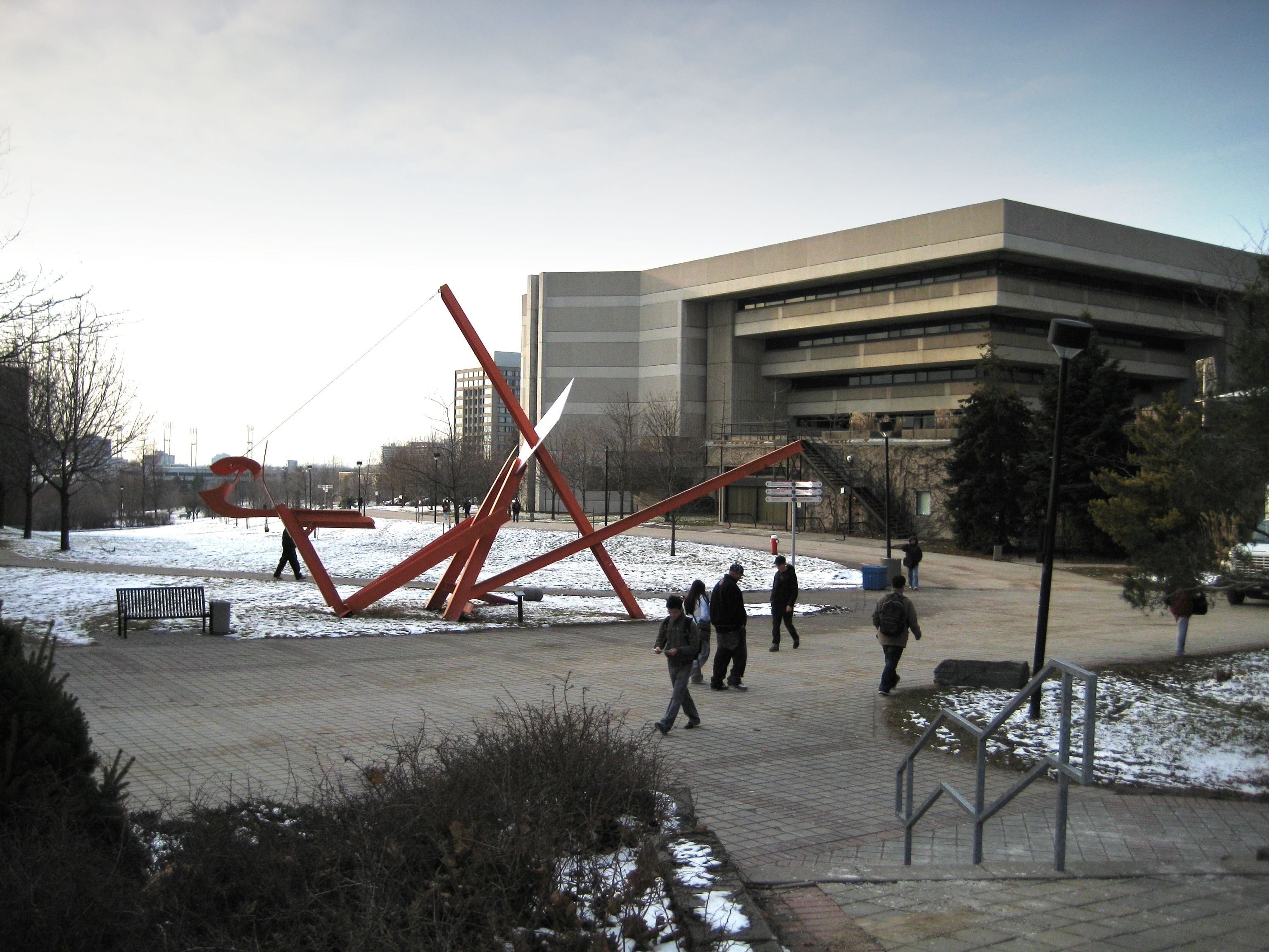 Looking WNW from S.Ross, Scott Library is seen behind a bright orange sculpture